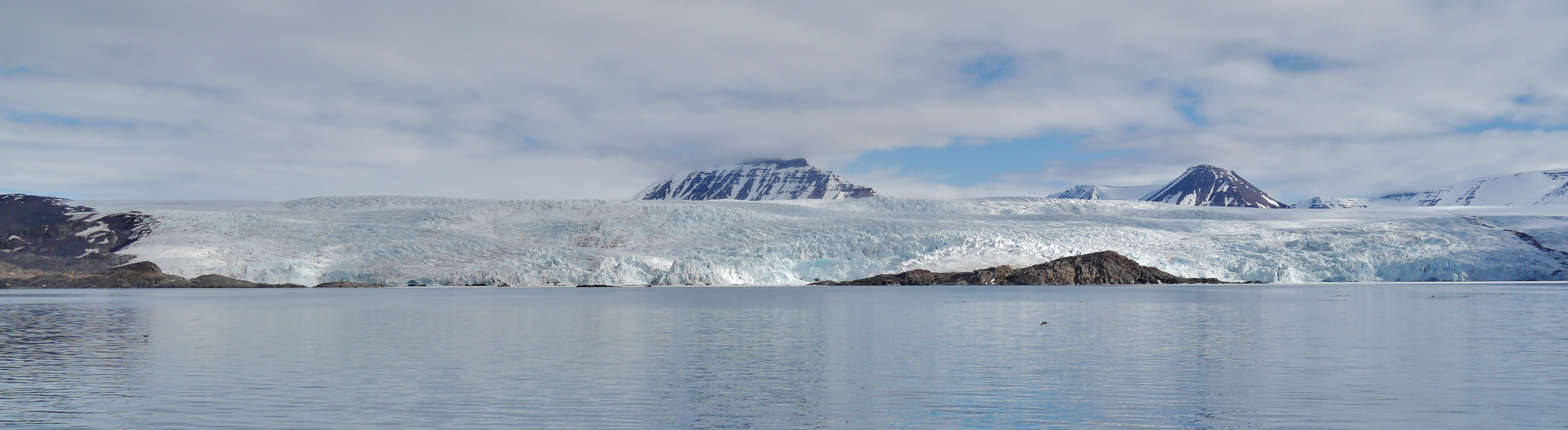 Glacier near Pyramiden, Spitsbergen, Norway